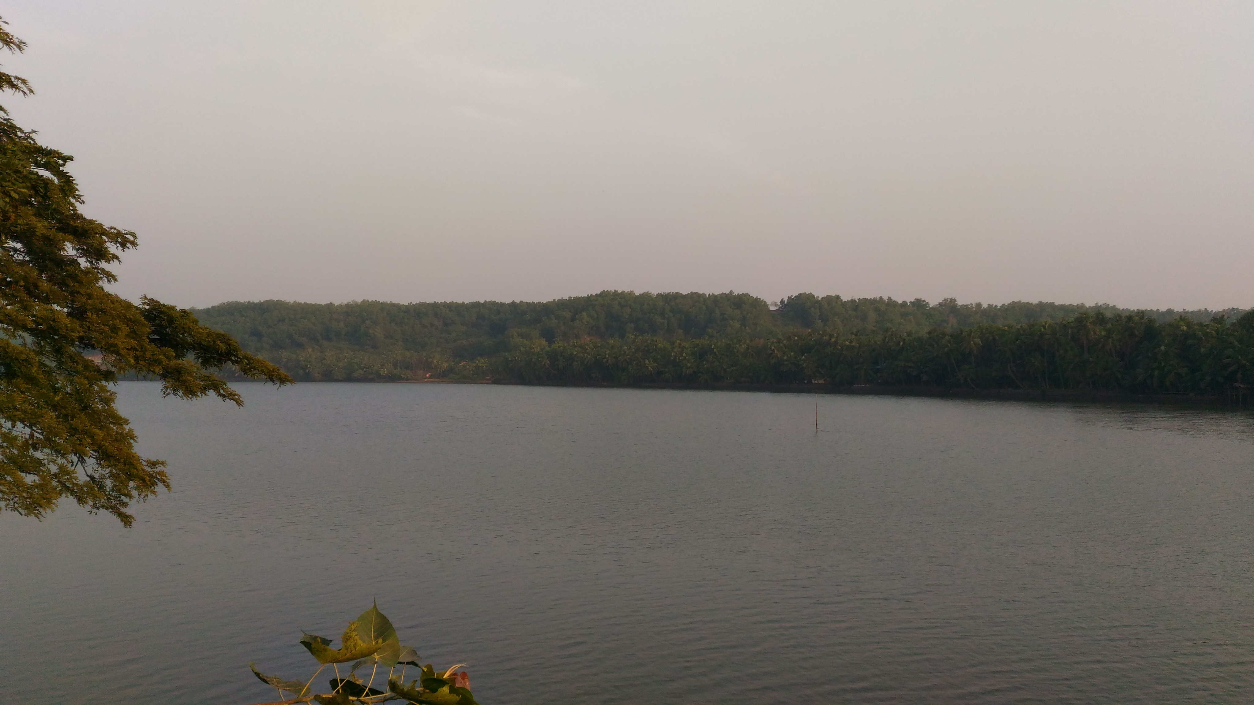 Karyamkode River at Nileswar in Kasaragod District of Kerala